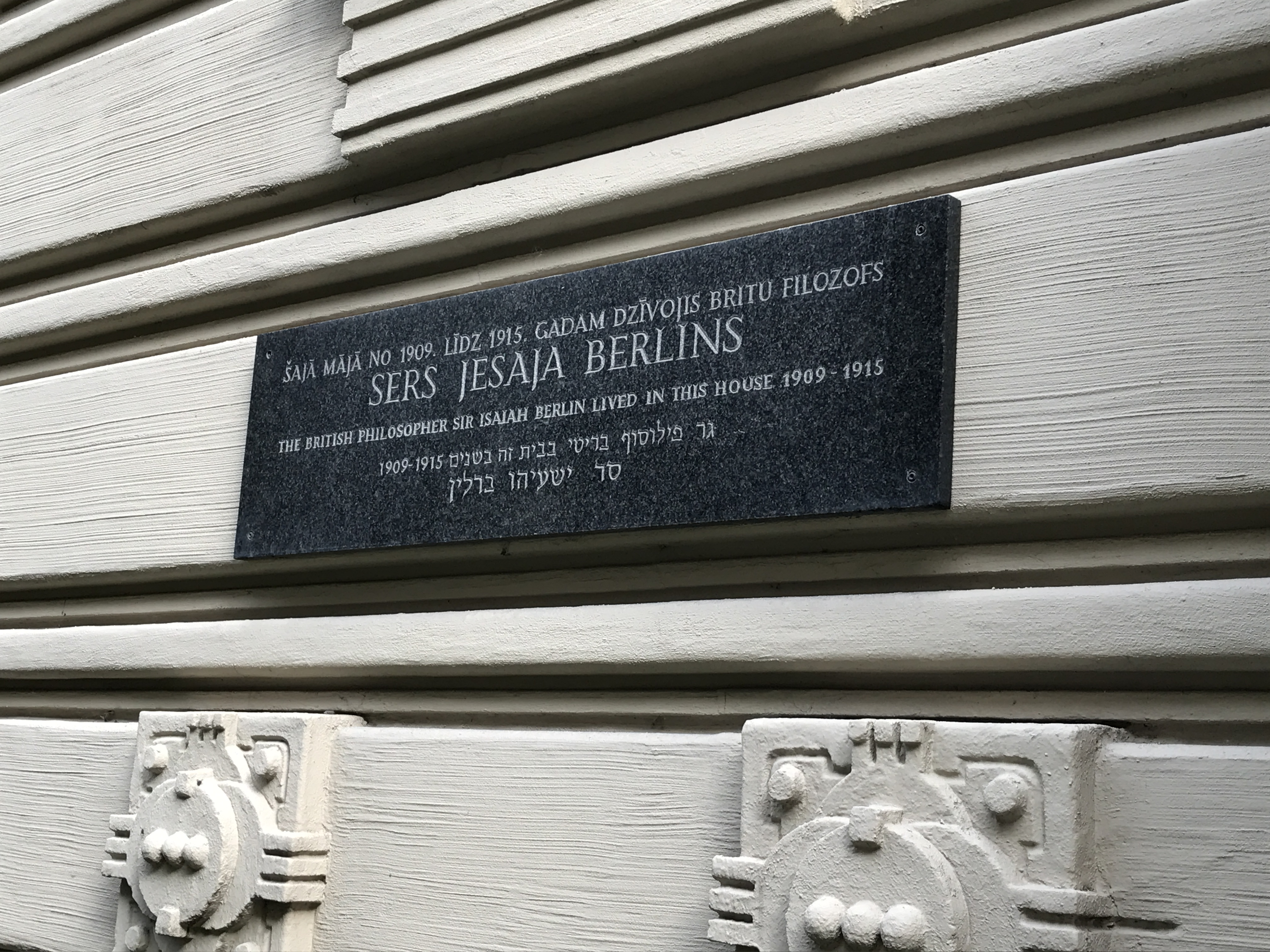 Plaque commemorating Isaiah Berlin on his family home in Riga.